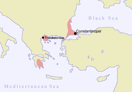 Byzantine "Empire", ca 1400